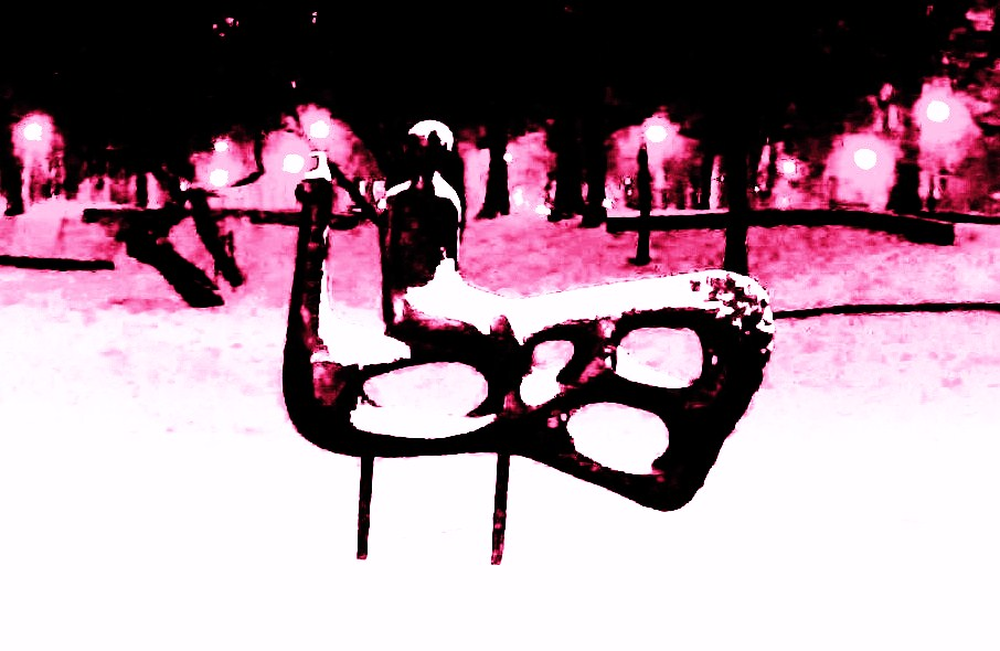 "Peafowl" - in Marcinkowskiego Garden, Poznan. Sculptor: Anna Krzymanska.